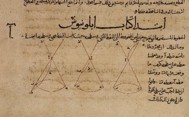 Geometric diagram of conic sections, extracted from File:Conica_of_Apollonius_of_Perga_fol._6b-7a.jpg The Conica of Apollonius of Perga ‘the great geometer’ (c. 262-190 BCE) were translated into Arabic in the 9th century CE. Shelfmark: MS. Marsh 667